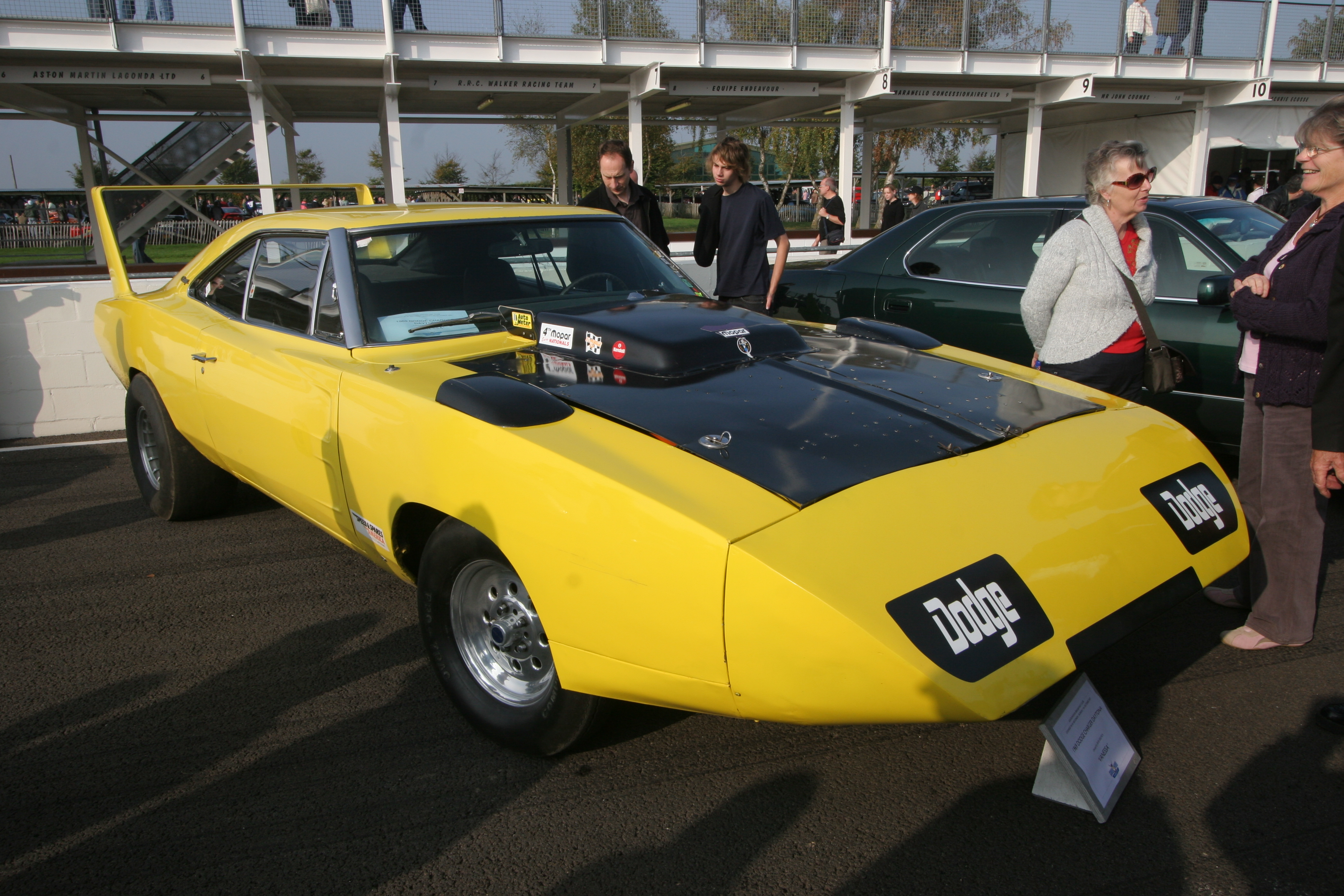 Goodwood Breakfast Club - 1969 Dodge Charger DaytonaGoodwood Breakfast Club - 1969 Dodge Charger Daytona